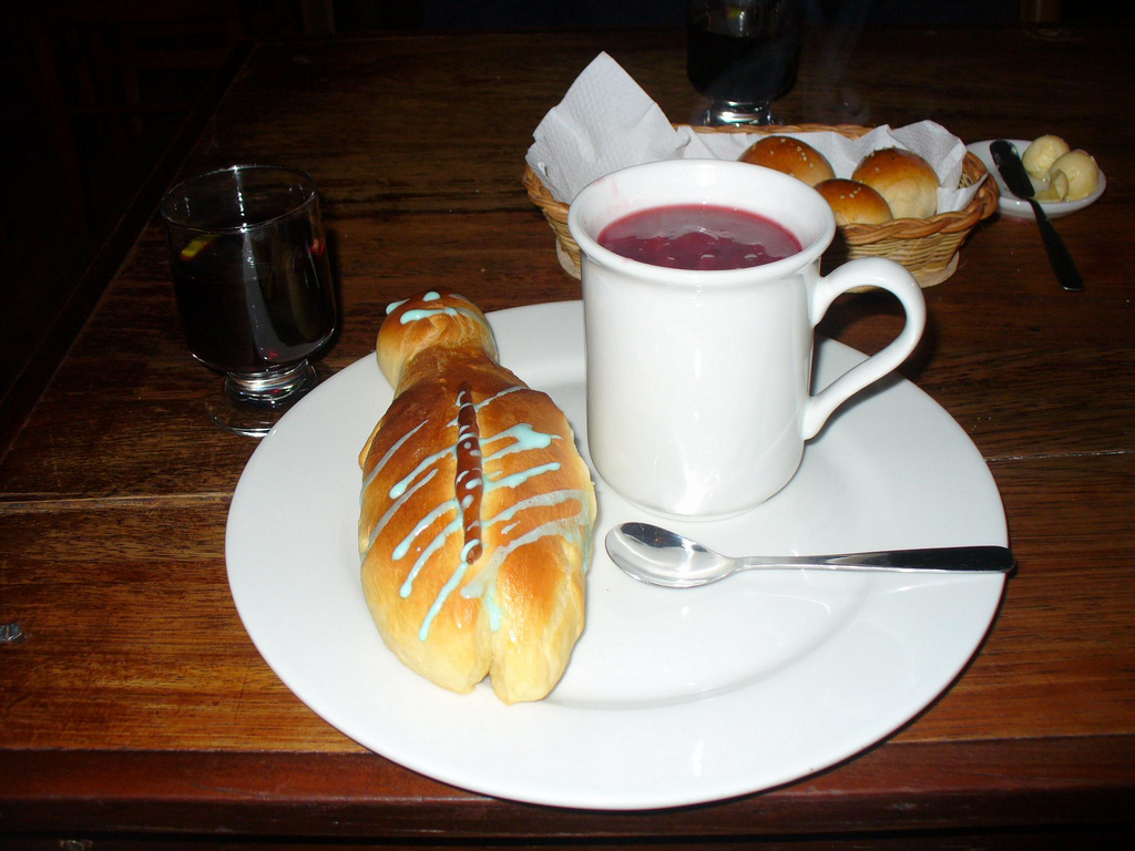 Right: a mug of colada morada. Left: a guagua de pan. In Ecuador, these are typically eaten together on the Day of the Dead.